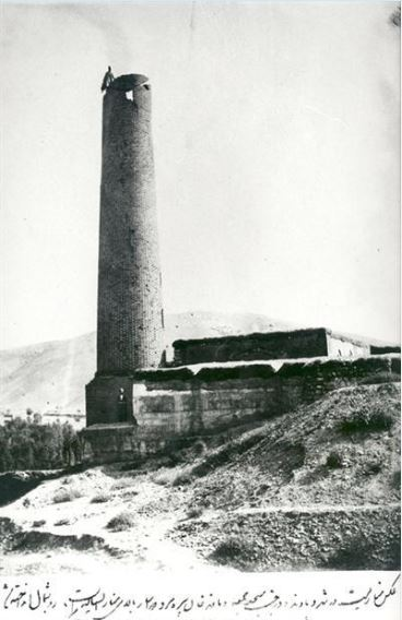 1903 masjed jame damavand